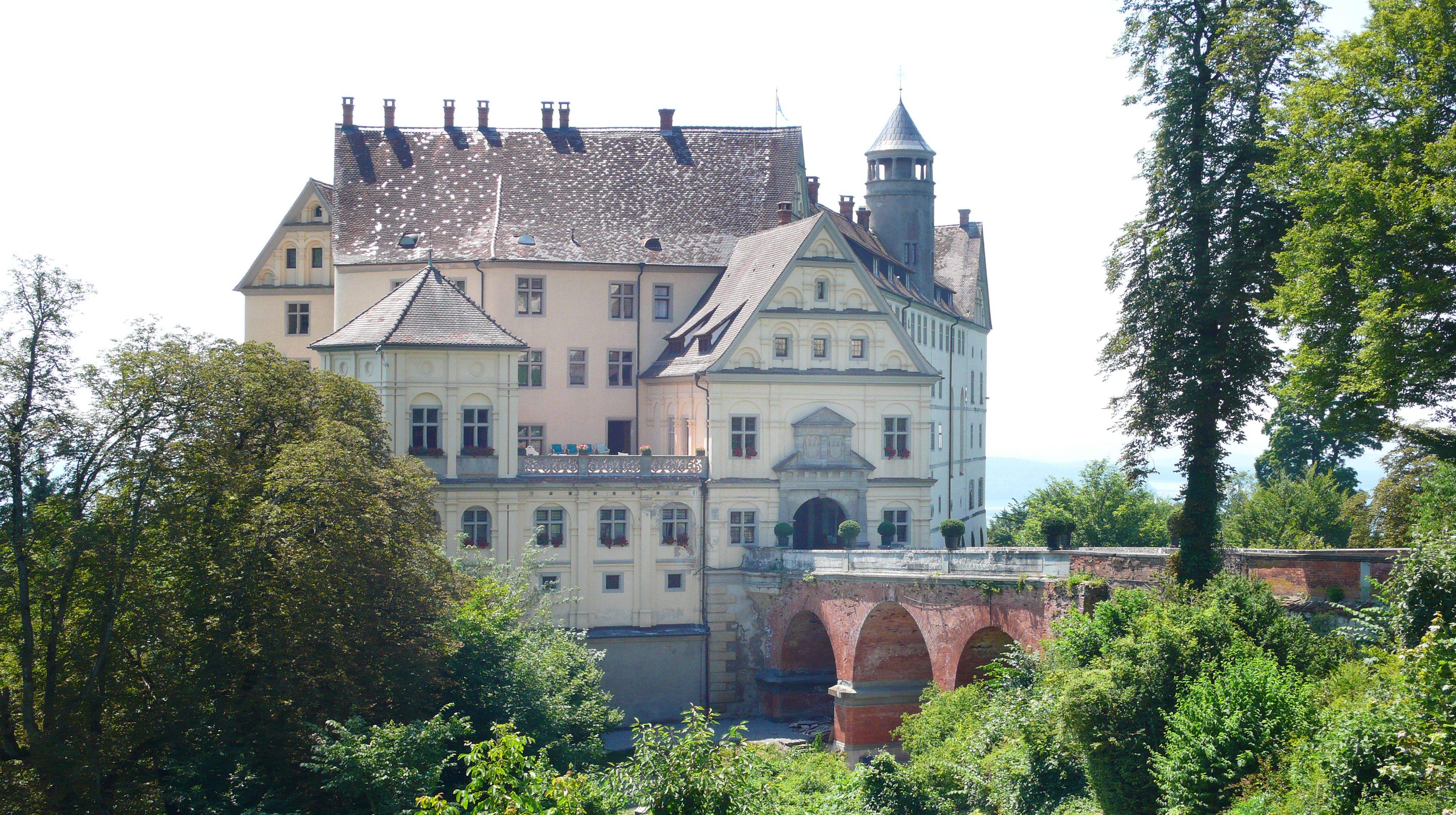 Heiligenberg castle, Germany